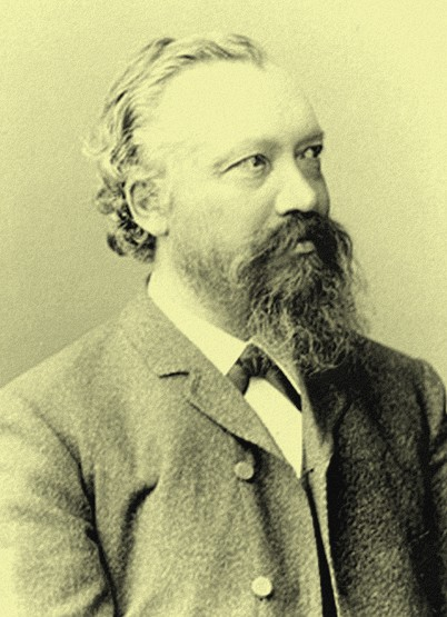 Albert Wangerin (1844 - 1933), German mathematician.